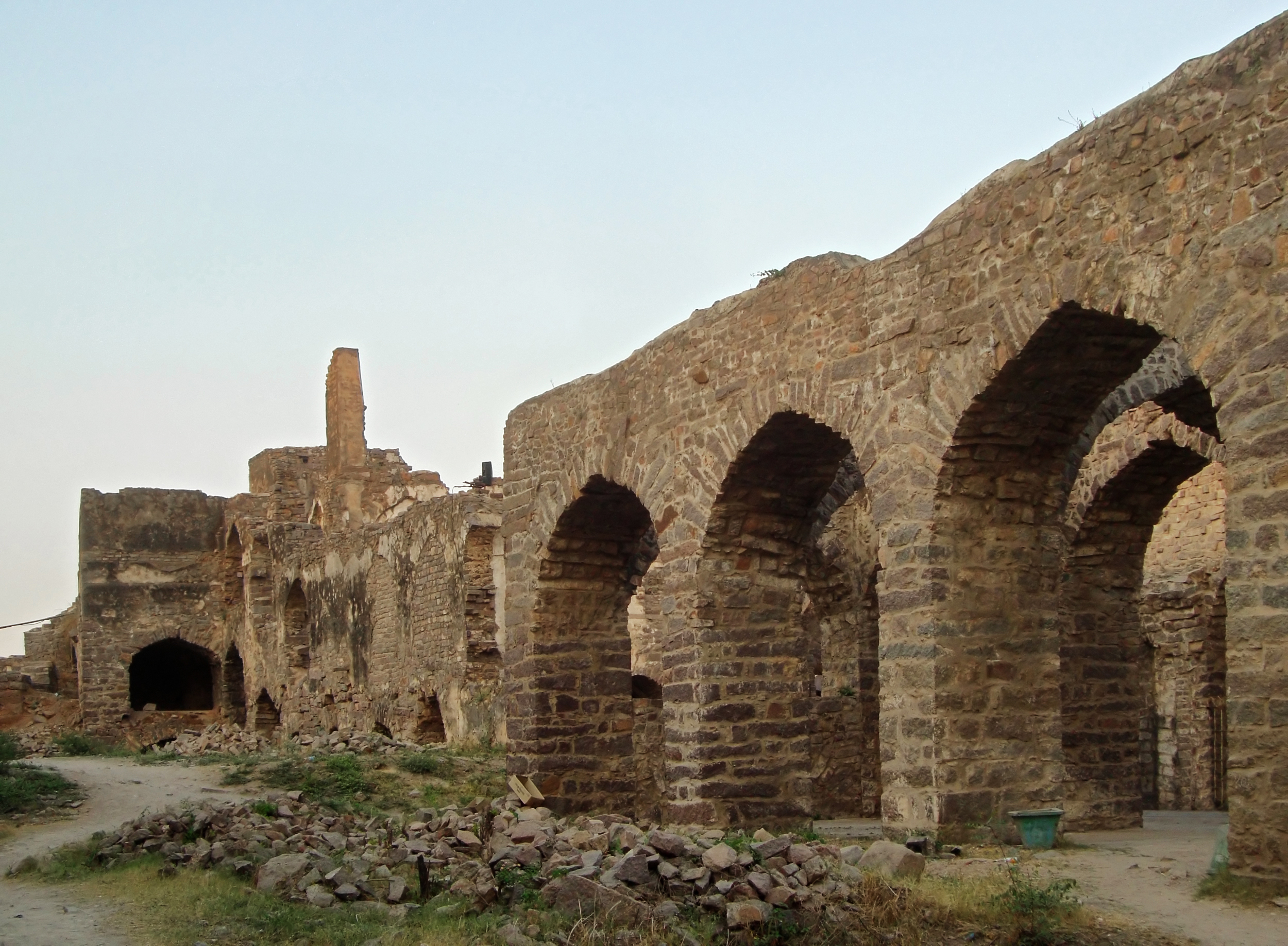 Golconda fort, Hyderabad